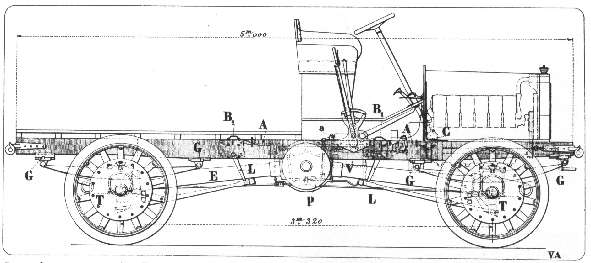 drawing of the Panhard-Châtillon heavy artillery tractor, 1911.